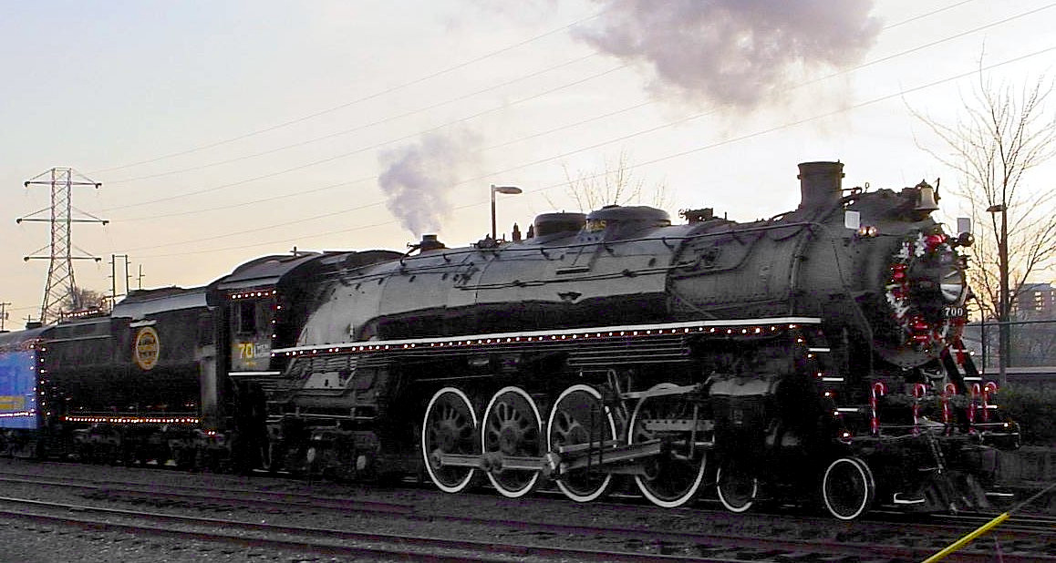 SP&S 700 standing idle waiting to start Christmas excursion. Photographer - Jerry Gaiser